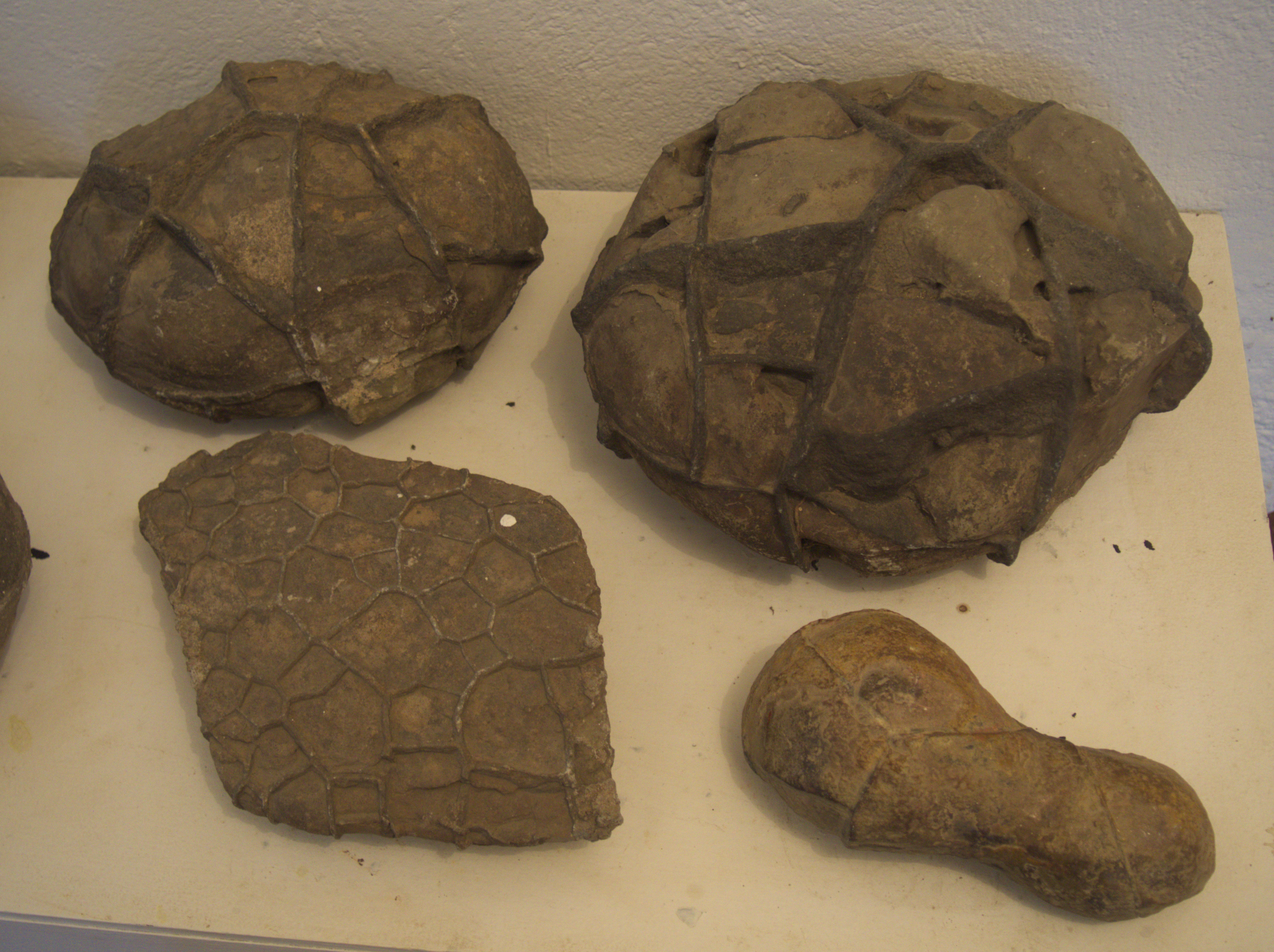 Septarian concretions in Colombia.